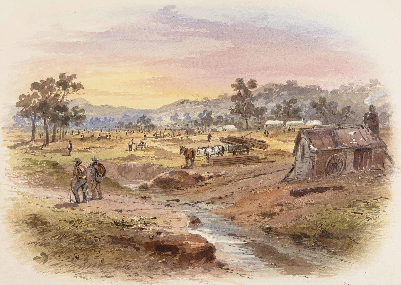 Bendigo Creek, watercolour ; 26.8 x 19.5 cm., on sheet 48.0 x 37.0 cm